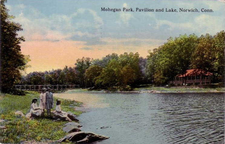 Postcard: Mohegan Park, Norwich, Connecticut, 1912 postmark Description: Caption reads "Mohegan Park, Pavilion and Lake, Norwich, Conn." From store Web page: "postmarked 1912"